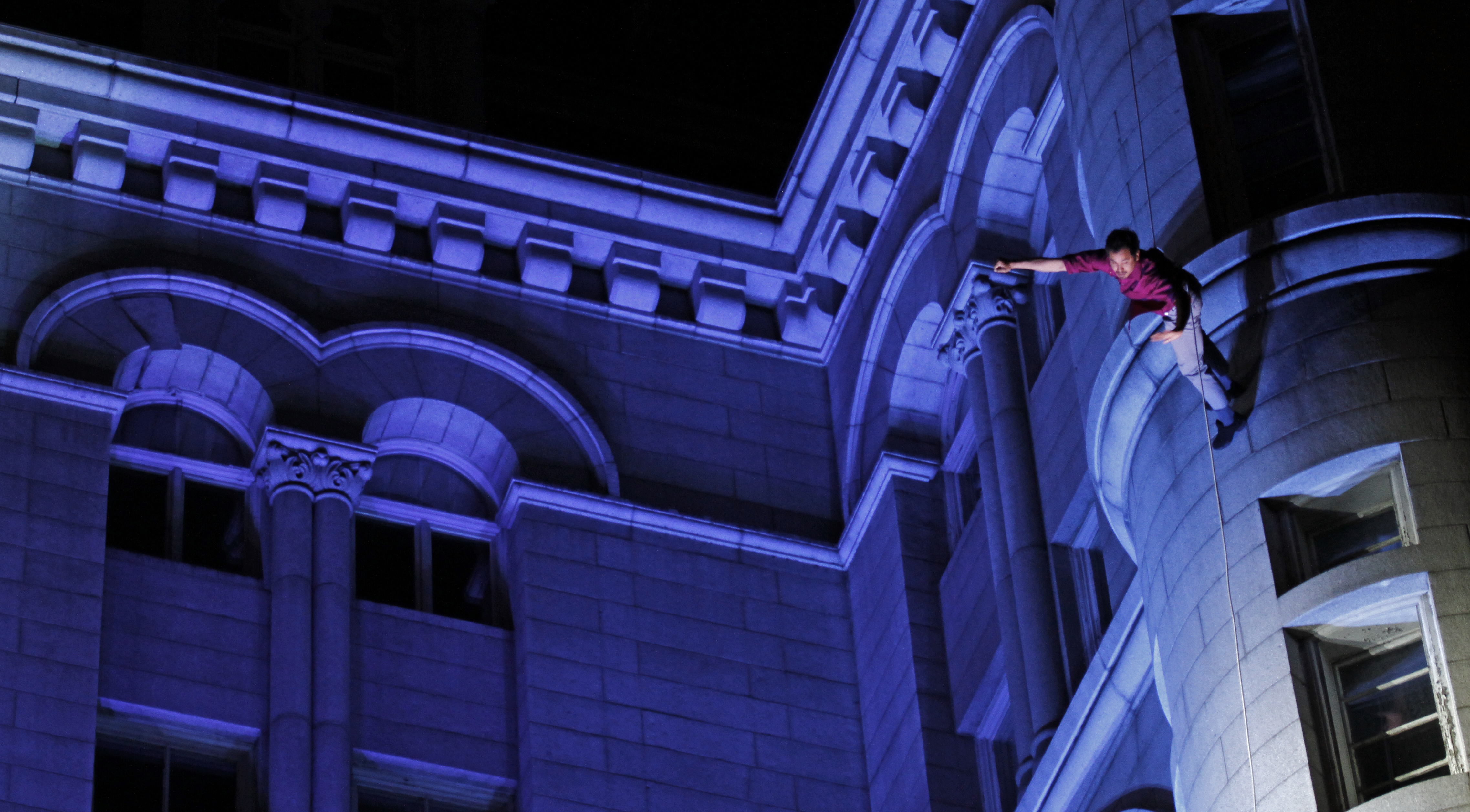 San Francisco based Project Bandaloop performs a vertical aerial dance on the side of the Old Post Pavilion as part of the Kennedy Center "Look Up" Program